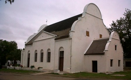 The Mission Station which is an important place of interest because of both its history and its architectural beauty, was founded in 1808 by the Moravian missionaries Kohrhammer and Schmidt under the auspices of Governor Lord Caledon on the site occupied by the Dutch East India Company's military and cattle outpost, “t Groenekloof", founded by Dutch Governor Simon van der Stel in 1679. The site houses the original church building still used today for the same purpose, the “Kleine (Little) Post” military outpost converted to a parsonage, mission houses now used as clerical buildings, a 1935 school house still used for this purpose, the historic shop used as a restaurant, the historic water mill restored and used as a local museum, a slave tree, a reed and thatch historic house, historic bakery with replica outside oven and a more recently constructed community hall. This media shows a South African Protected Site with SAHRA file reference 9/2/060/0004.